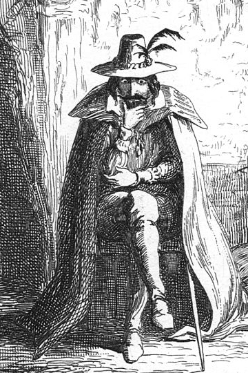 "Guy Fawkes in Ordsall Cave". Google books edition.